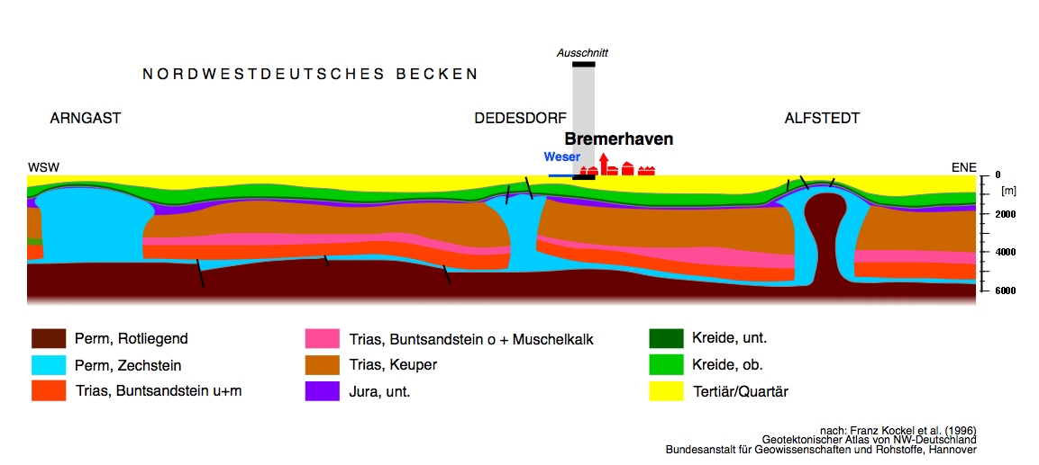 Geological cross section through the Northwestern Basin of Germany (Ostfriesland-Nordheide) showing the record and deposits since Perm (ab 250 Million years). Salt domes of the Zechstein have penetrated the following layers and moved up close to the surface.